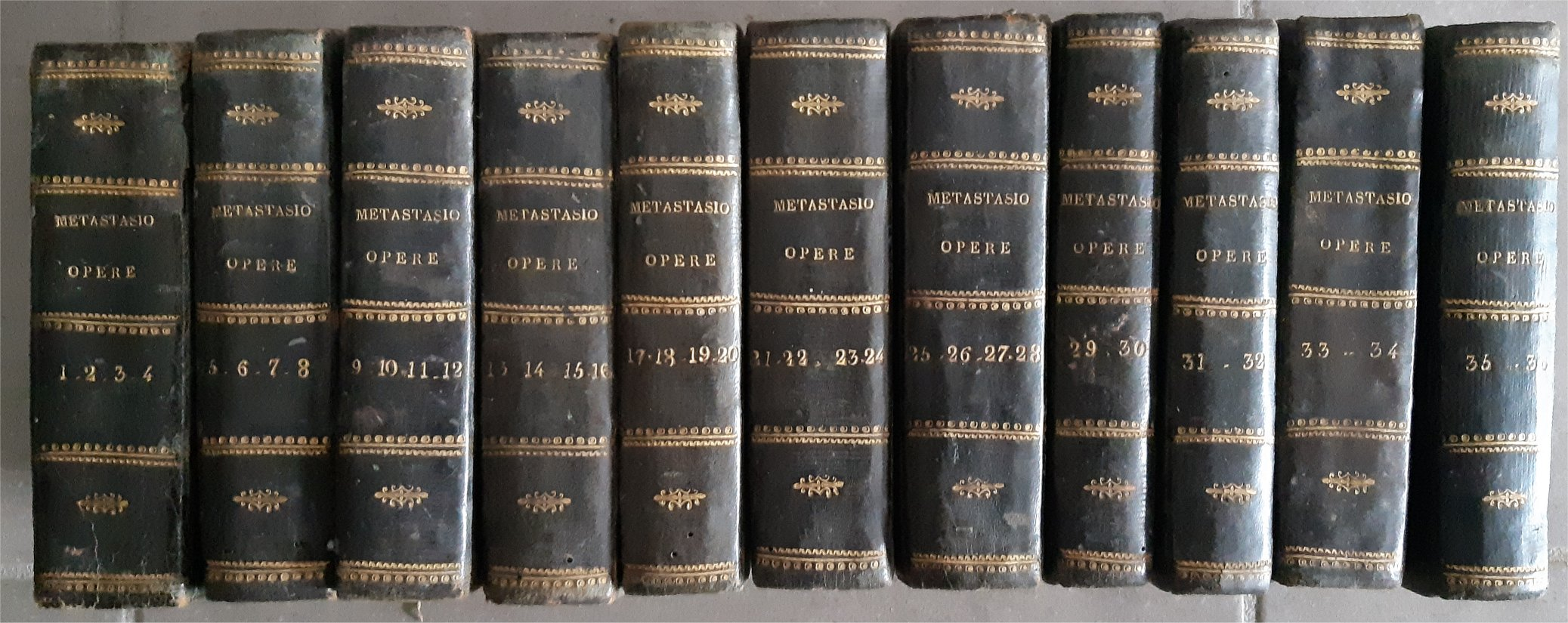 Title page